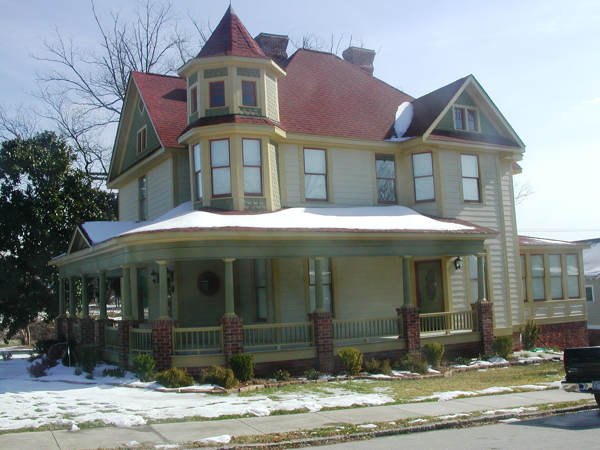 Atkinson House with a light snow in Greensboro, North Carolina